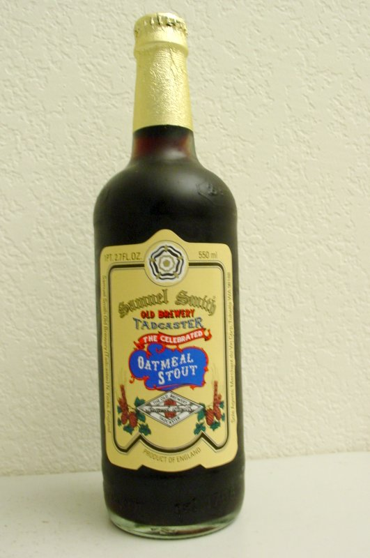 A bottle of Samuel Smith's Oatmeal Stout, uploaded by the image's author.